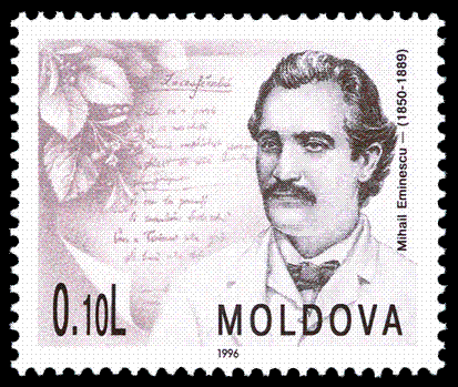 Stamp of Moldova; Description:Mihai Eminescu